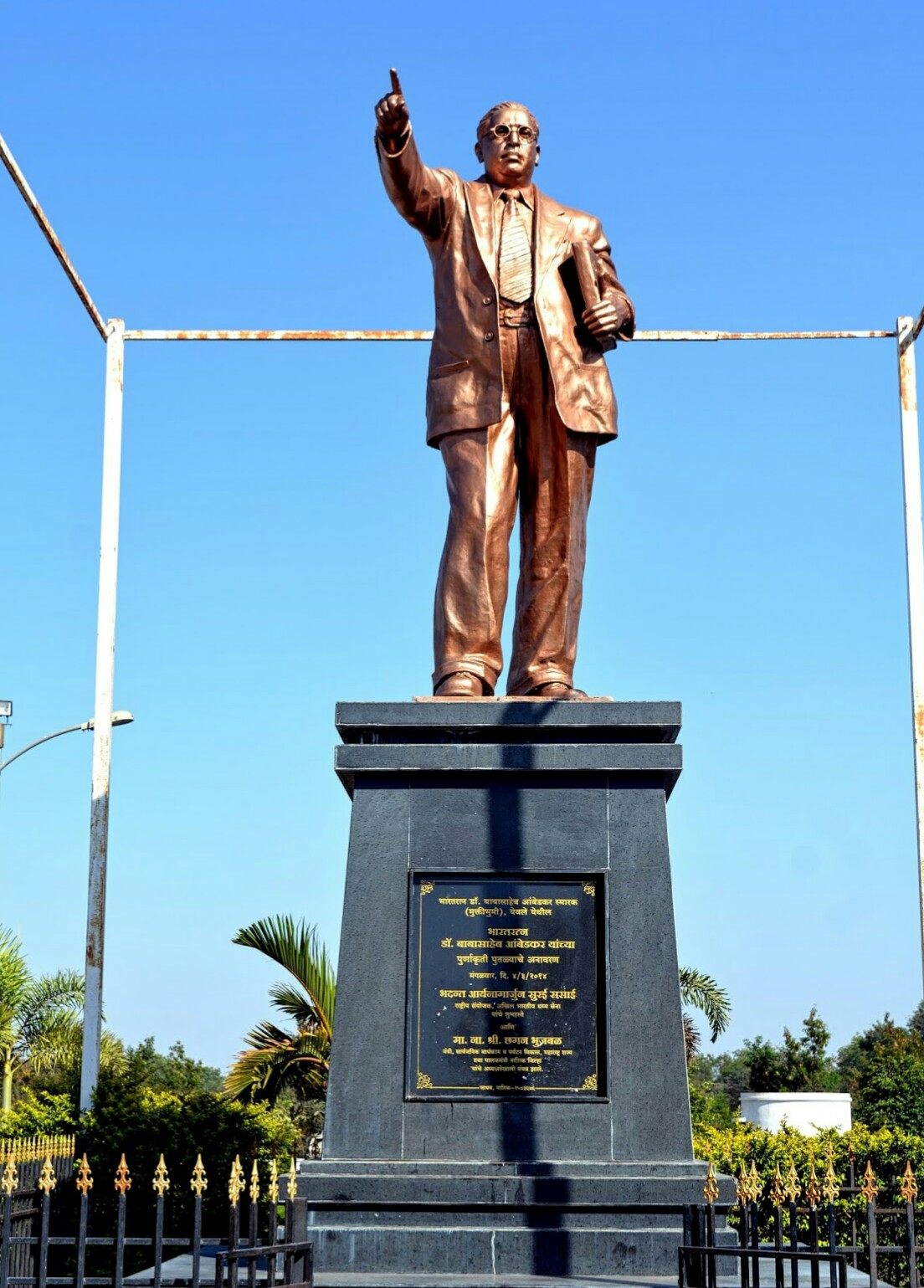 Statue of Dr. Babasaheb Ambedkar at Mooktibhoomi, Yeola, Maharashtra.